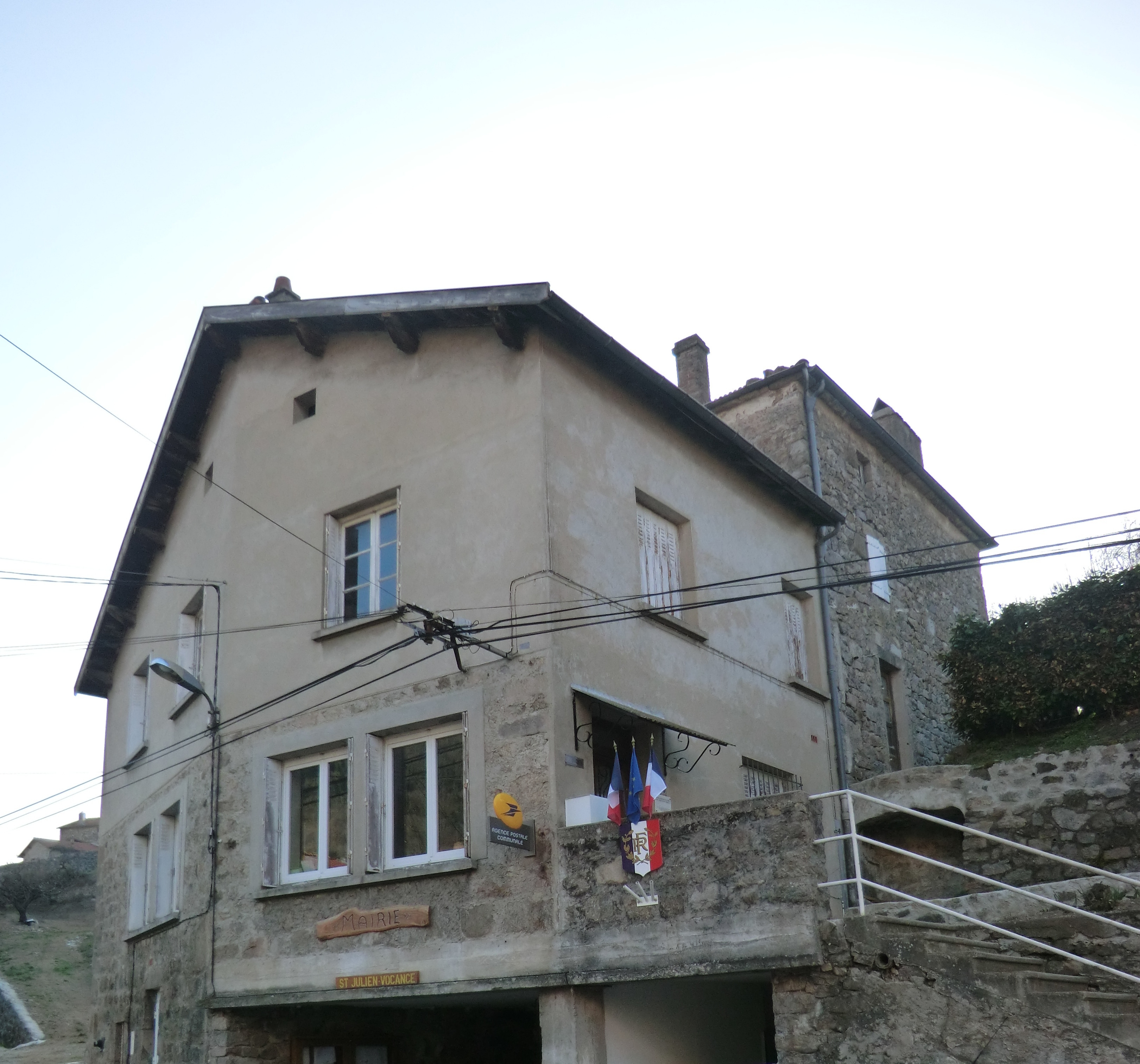 Town hall of Saint-Julien-Vocance.